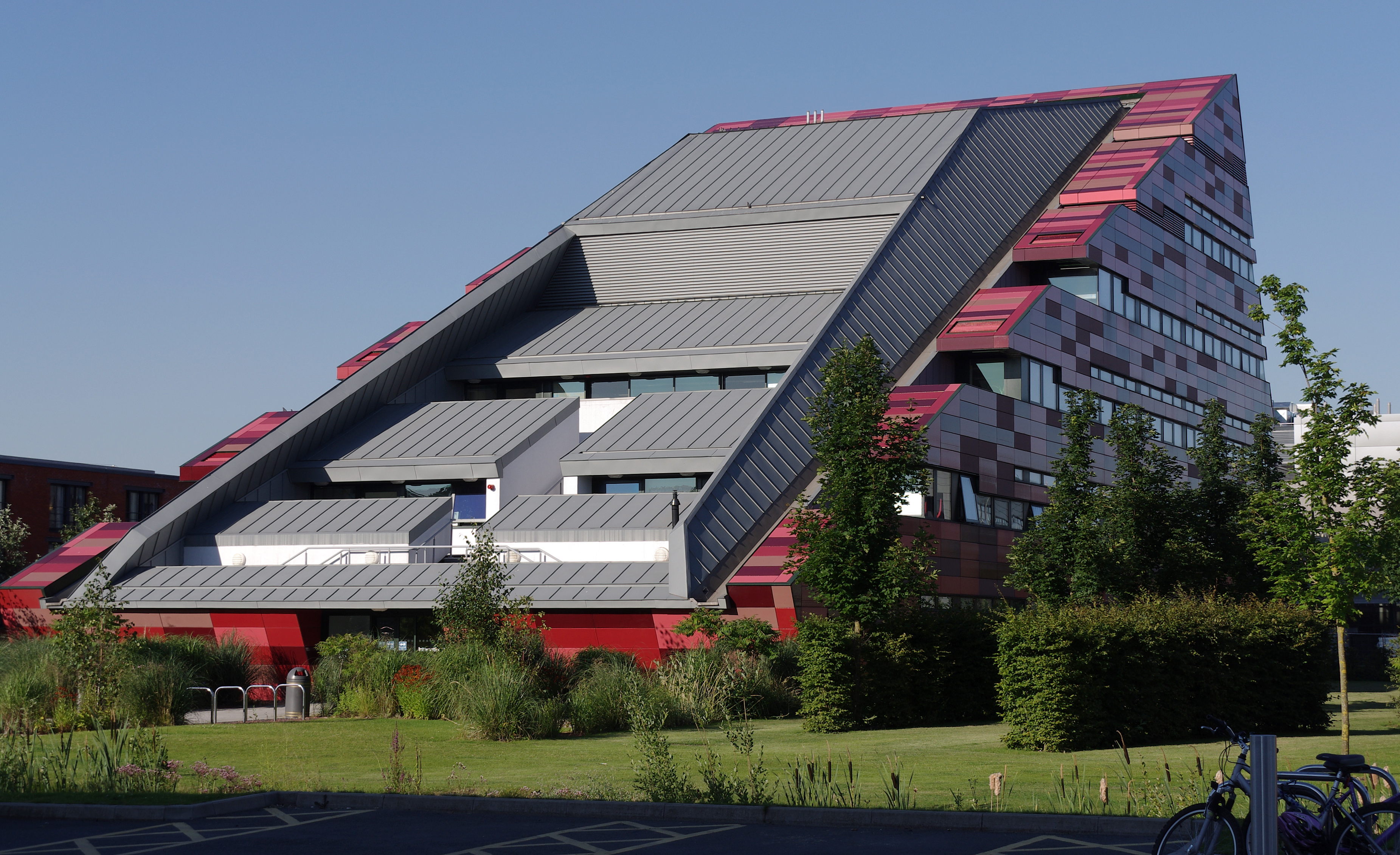 International House on Jubilee Campus.